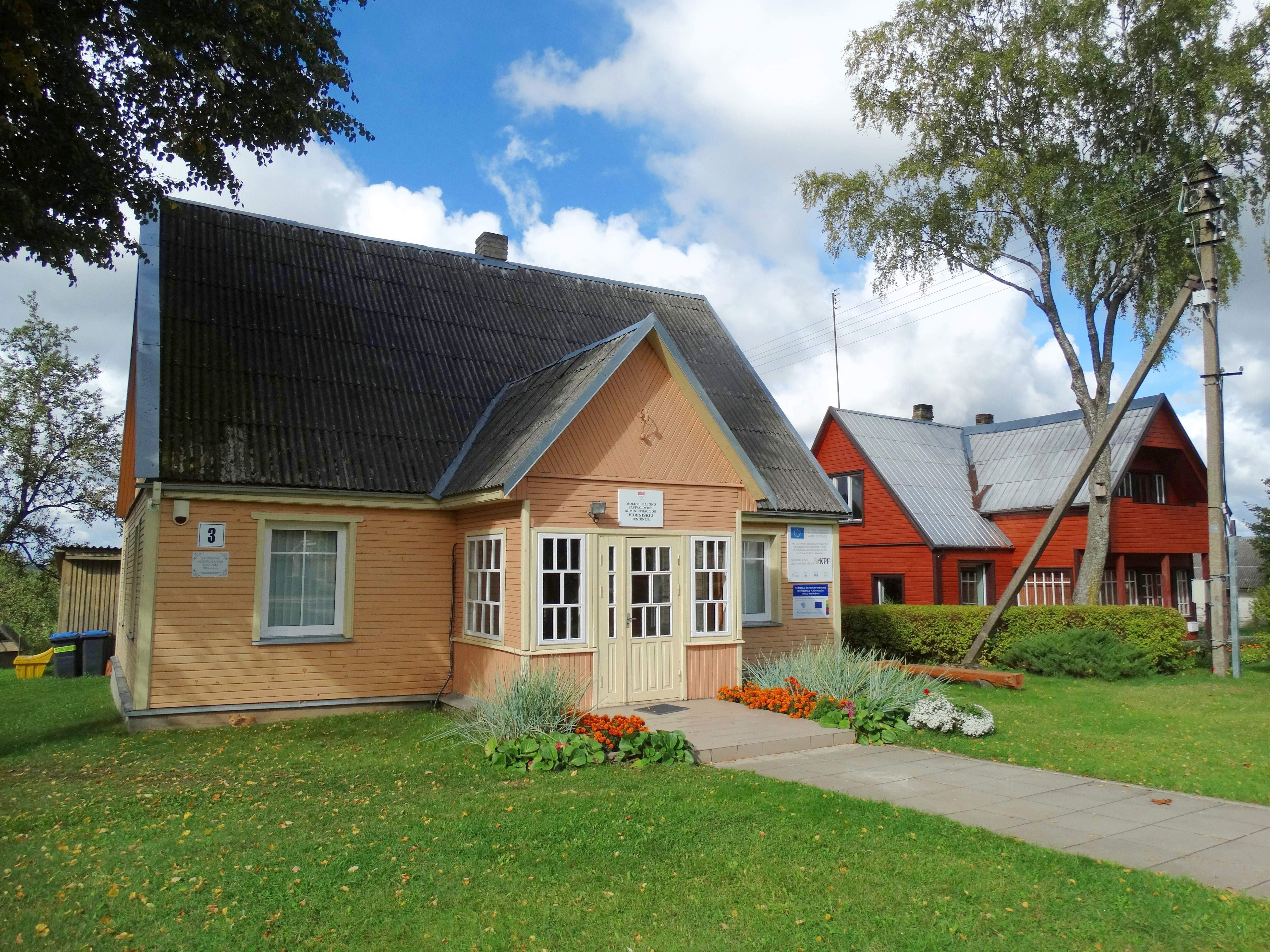 Videniškiai, eldership, Molėtai district, Lithuania